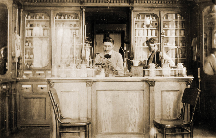 Military pharmacy in Kragujevac, Serbia, 1840.